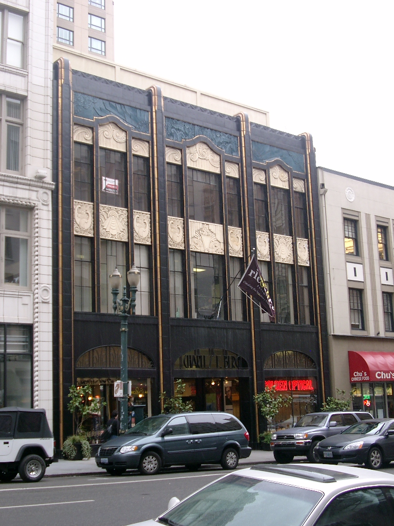 The Charles F. Berg Building in Portland, Oregon. Taken by myself, Ajbenj